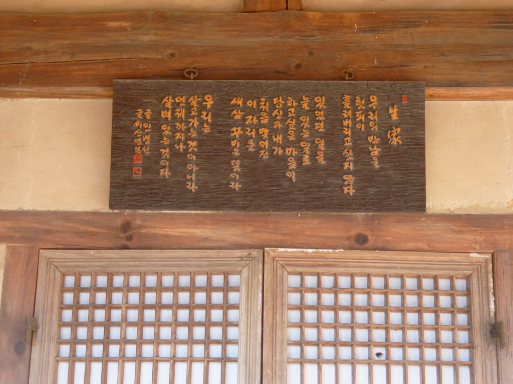 Sign board in the house of Sin DongYeop's birth